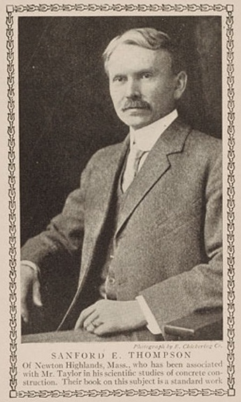 Robert Thurston Kent from The American Magazine, May 1911